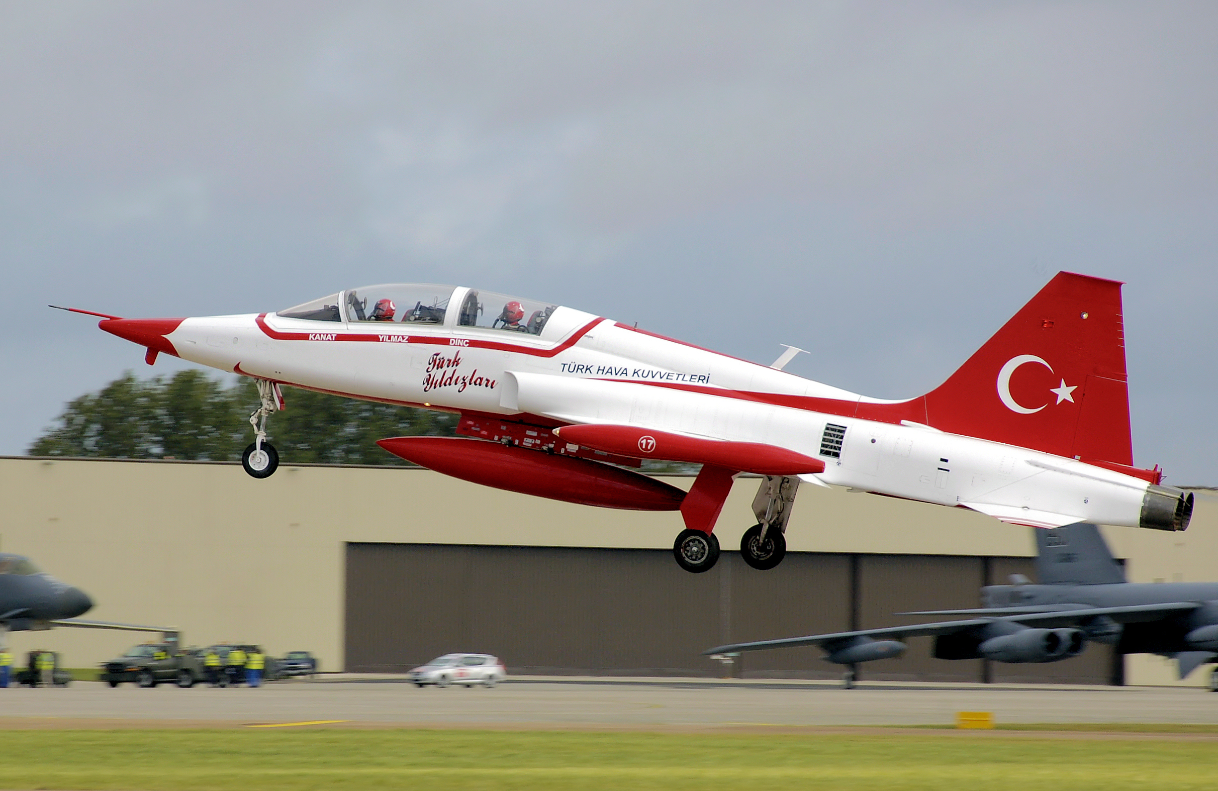 Canadair NF-5B of the Turkish Stars takes off at the 2008 Royal International Air Tattoo, RAF Fairford, Gloucestershire, England. Taken at RIAT Fairford on the Thursday before the weekend show days. Later, both show days (Saturday and Sunday) were cancelled because of waterlogged car parks. Photographed by Adrian Pingstone in July 2008 and placed in the public domain.